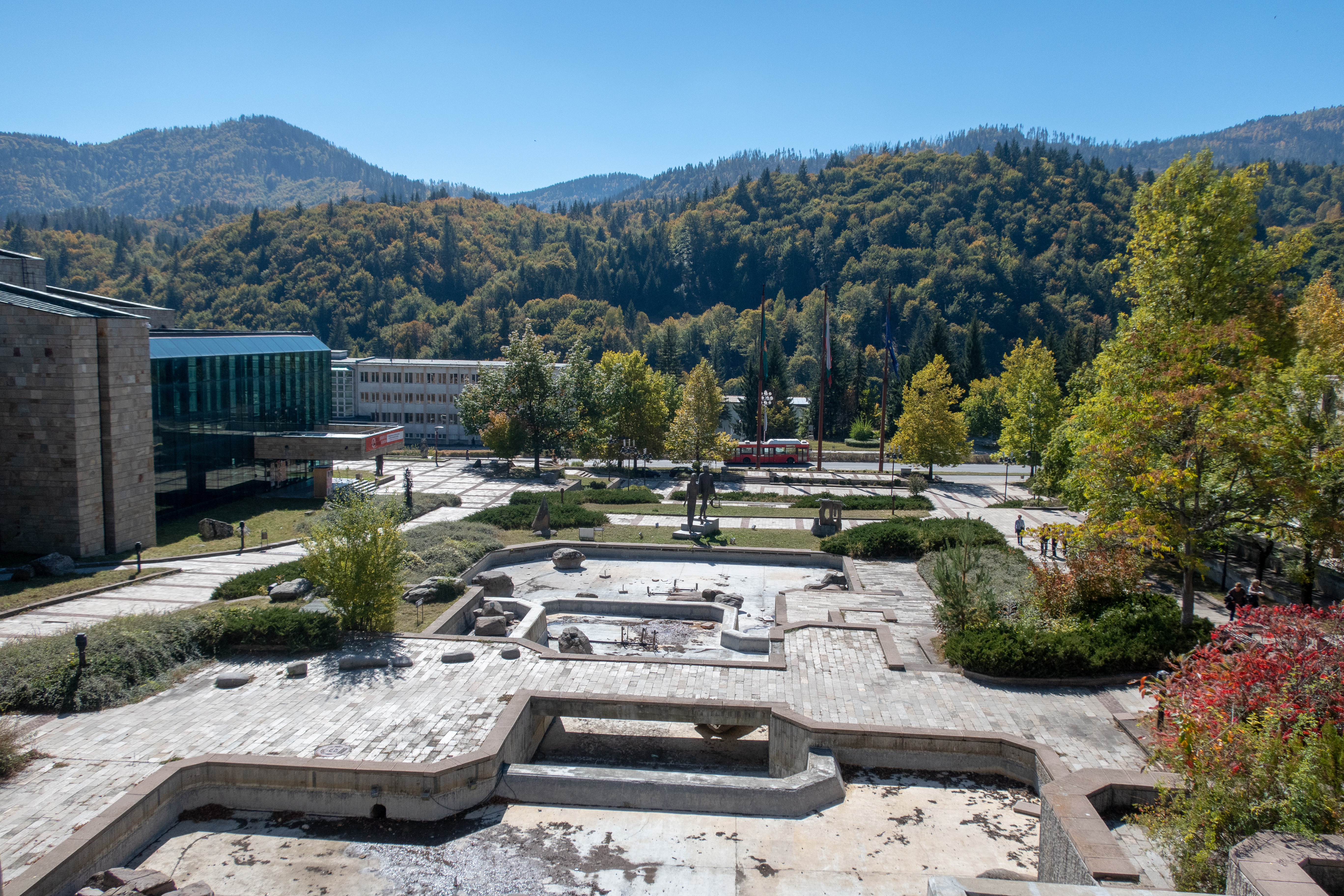 Smolyan